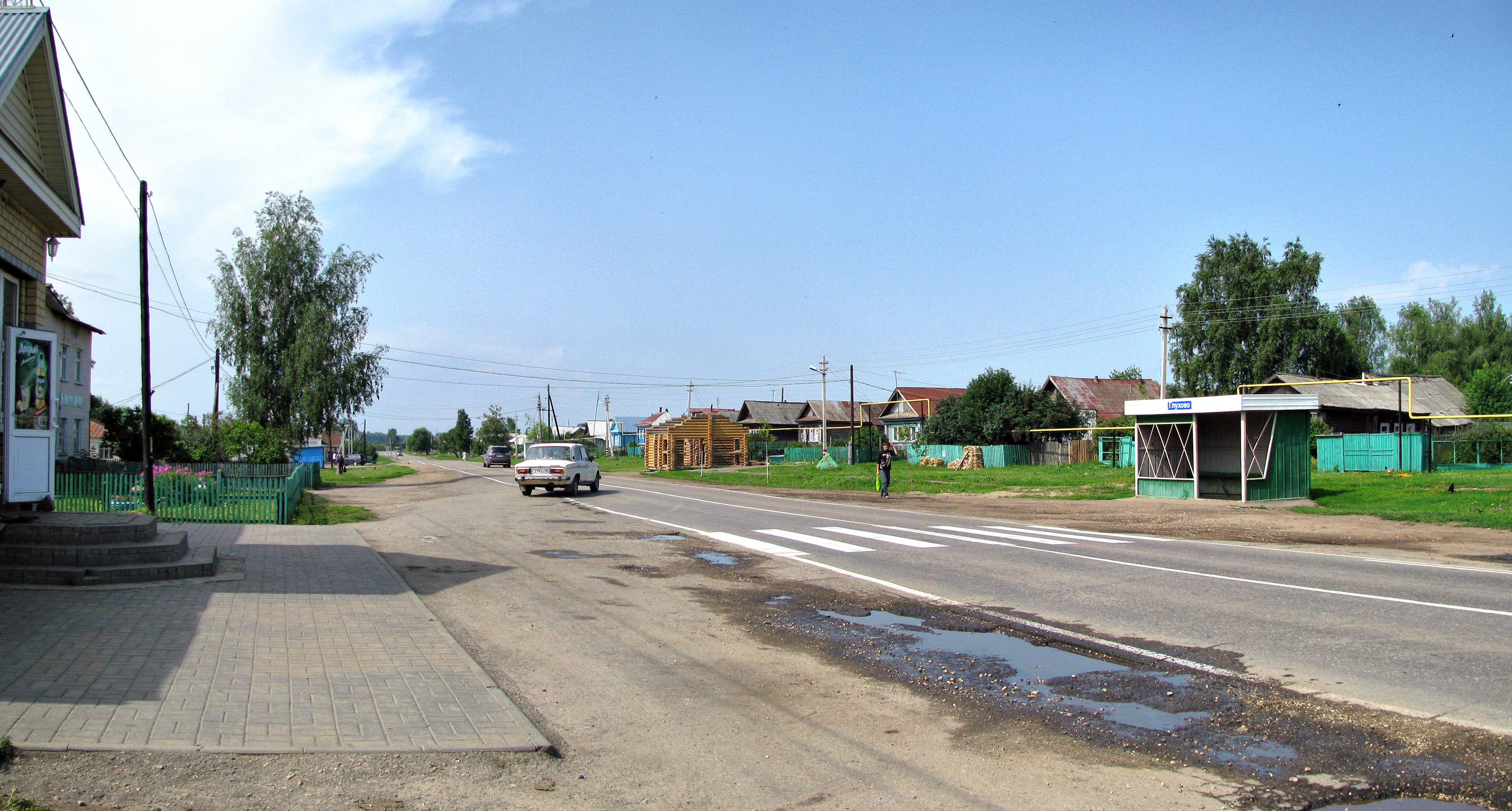 Bus stop in village Glukhovo, Diveyevsky District, Nizhny Novgorod Oblast.